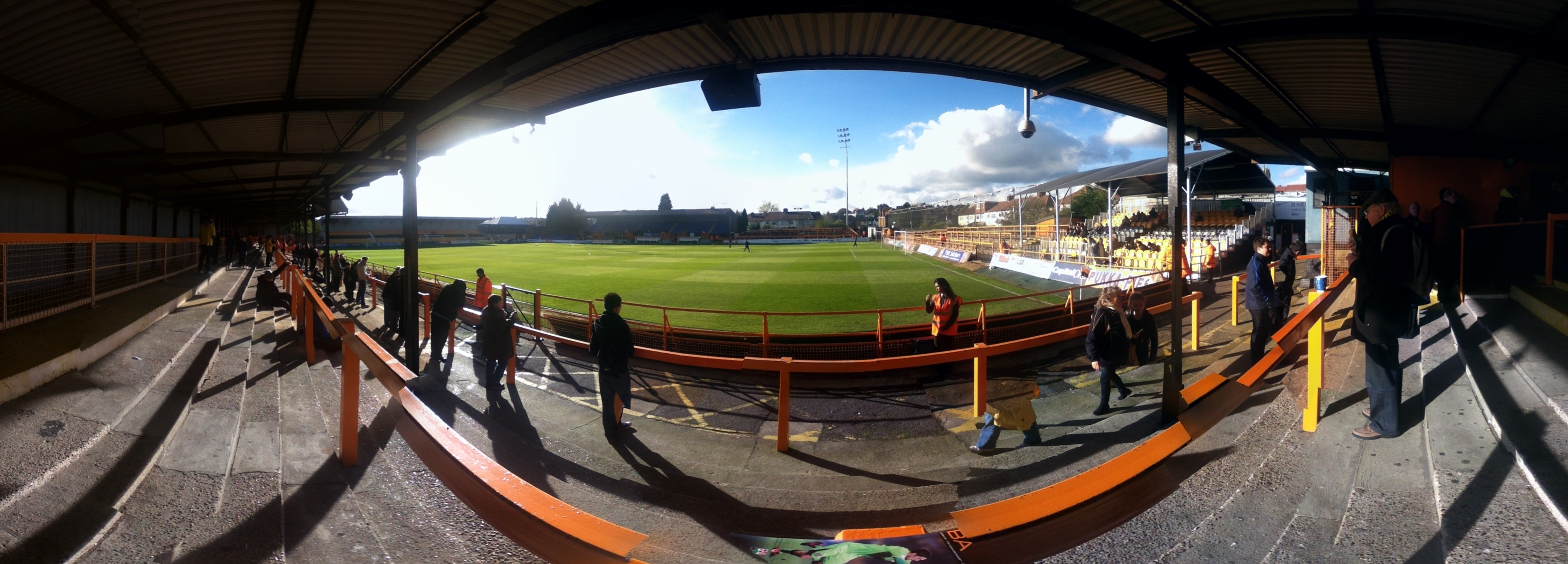 This is a panoramic image taken from the away area of the barnet ground.